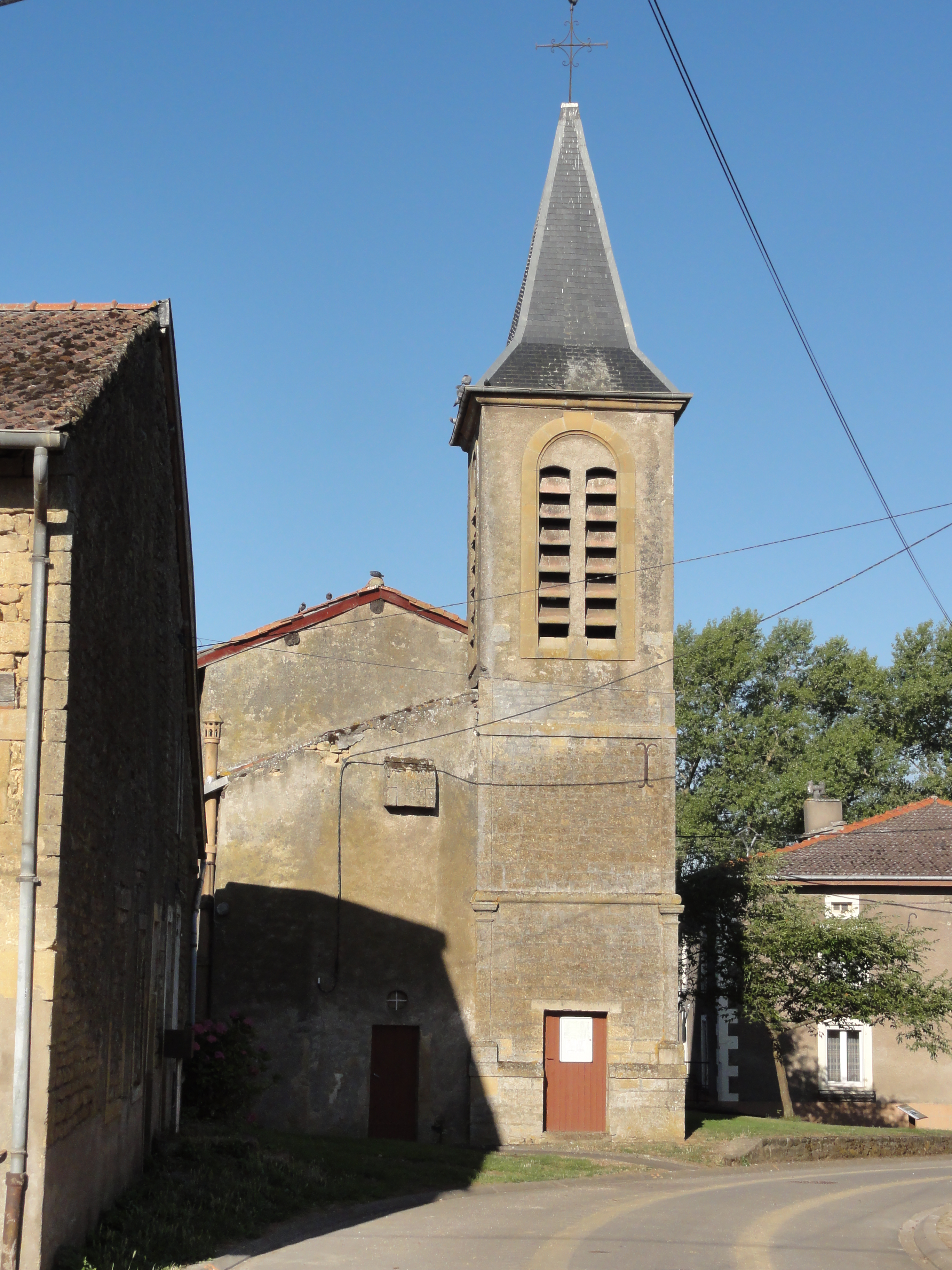 Han-devant-Pierrepont (Meurthe-et-M.) église